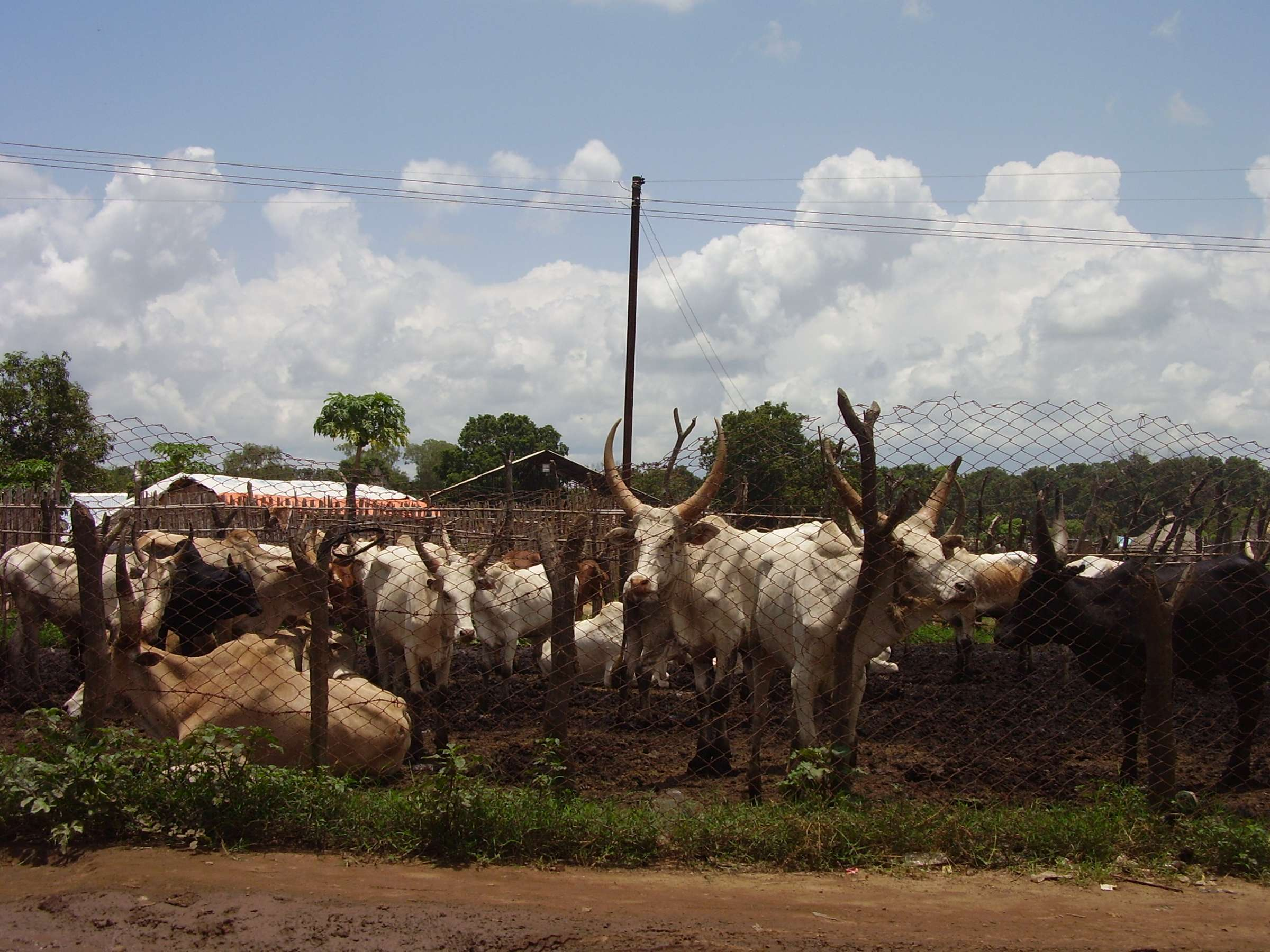 Livestock farming in South Sudan.